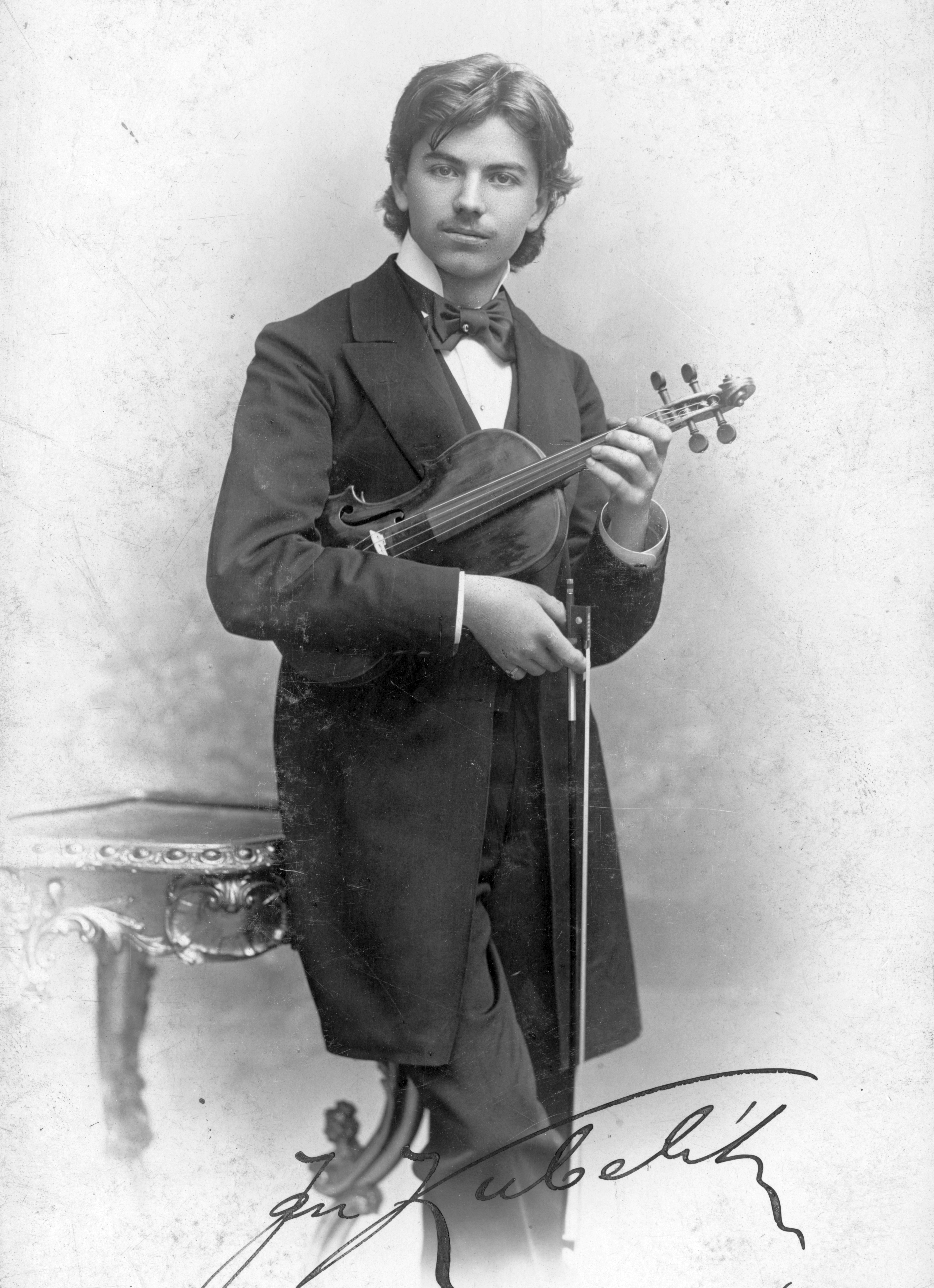 Tags: celebrity, violin, musical instrument, music